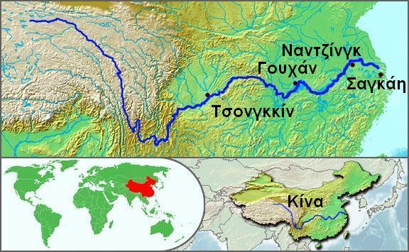 The underlying topographic maps used in this image come from the Demis Web Map Server, and are in the public domain. The world locator map is derived from :Image:BlankMap-World.png. I added the feature layers myself. —Papayoung ☯ 20:57, 1 October 2005 (UTC)